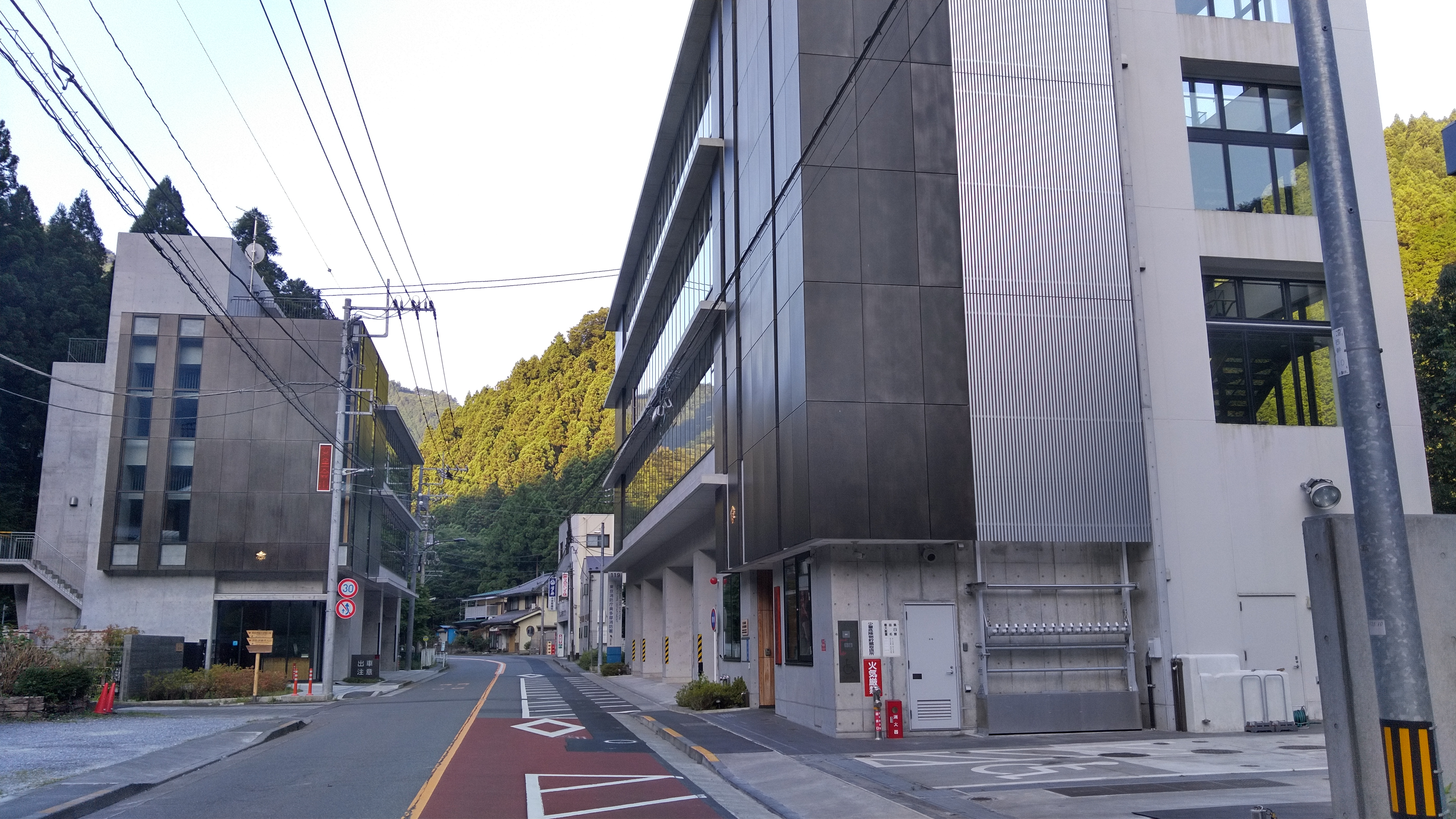 Okutama Fire Department Government Building and separate building